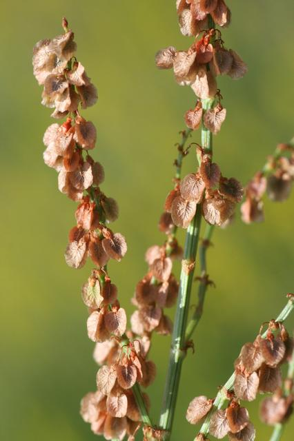 (en) Common Sorrel Rumex acetosa, a photography originating of the internet site The accord of the autor, H. Brisse, is here. (fr) Grande Oseille (Rumex acetosa), une photographie issue du site internet L'accord de l'auteur, H. Brisse, se situe ici. (it)Rómice Acetosa ; (de)Wiesen-Sauerampfer ; (Es)Acedera común ; (Nl)Veldzuring